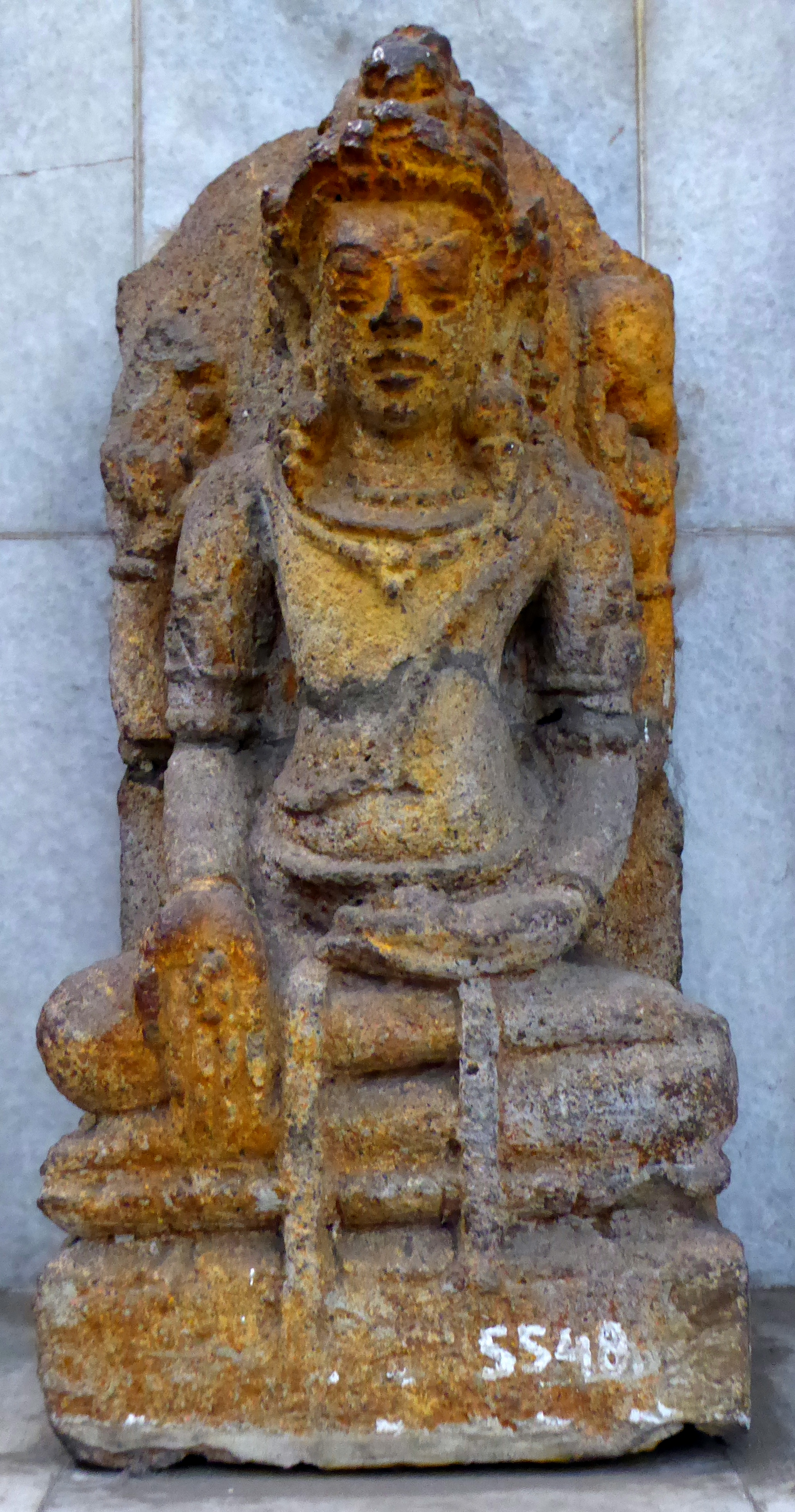 071 Siva Mahadeva, Dieng, Central Java, 8-9th c, National Museum, Jakarta, Java